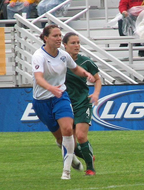 Lauren Cheney of the (WPS) Womens Professional Soccer Club, Boston Breakers.